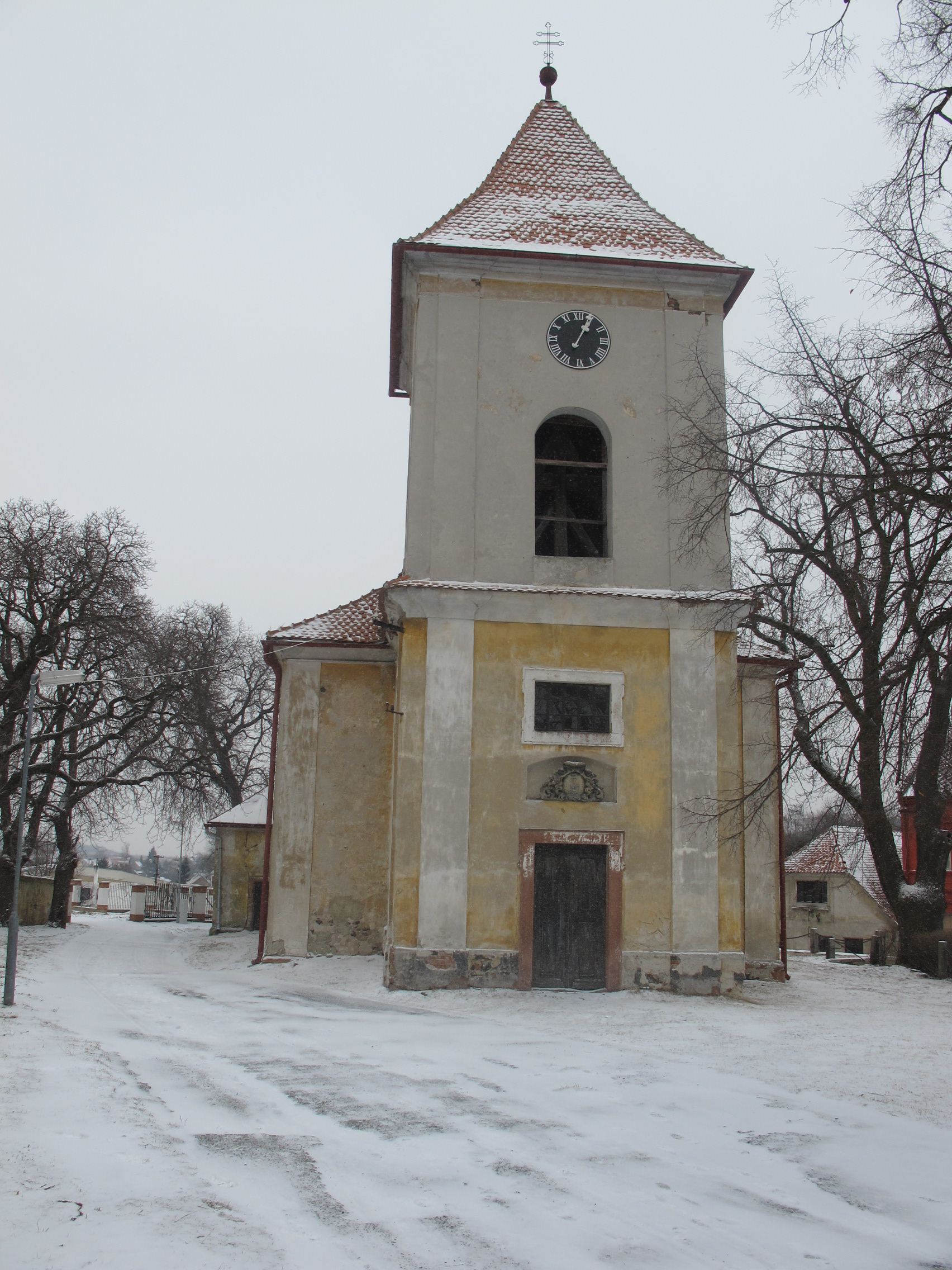 Saint Nicholas Church in Nepomyšl